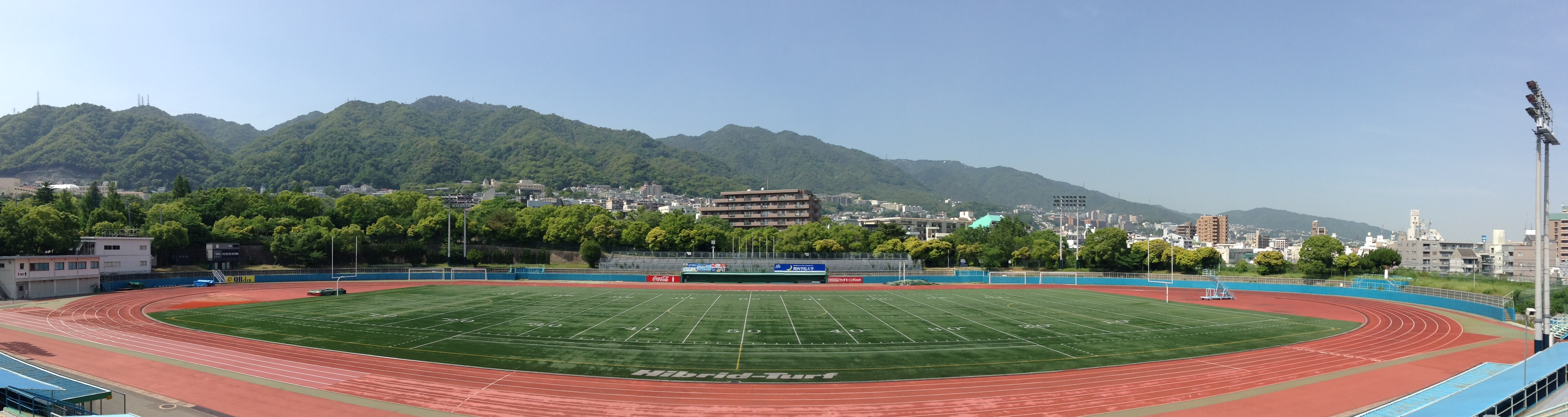 The panoramic photograph of Oji Sports Center Stadium